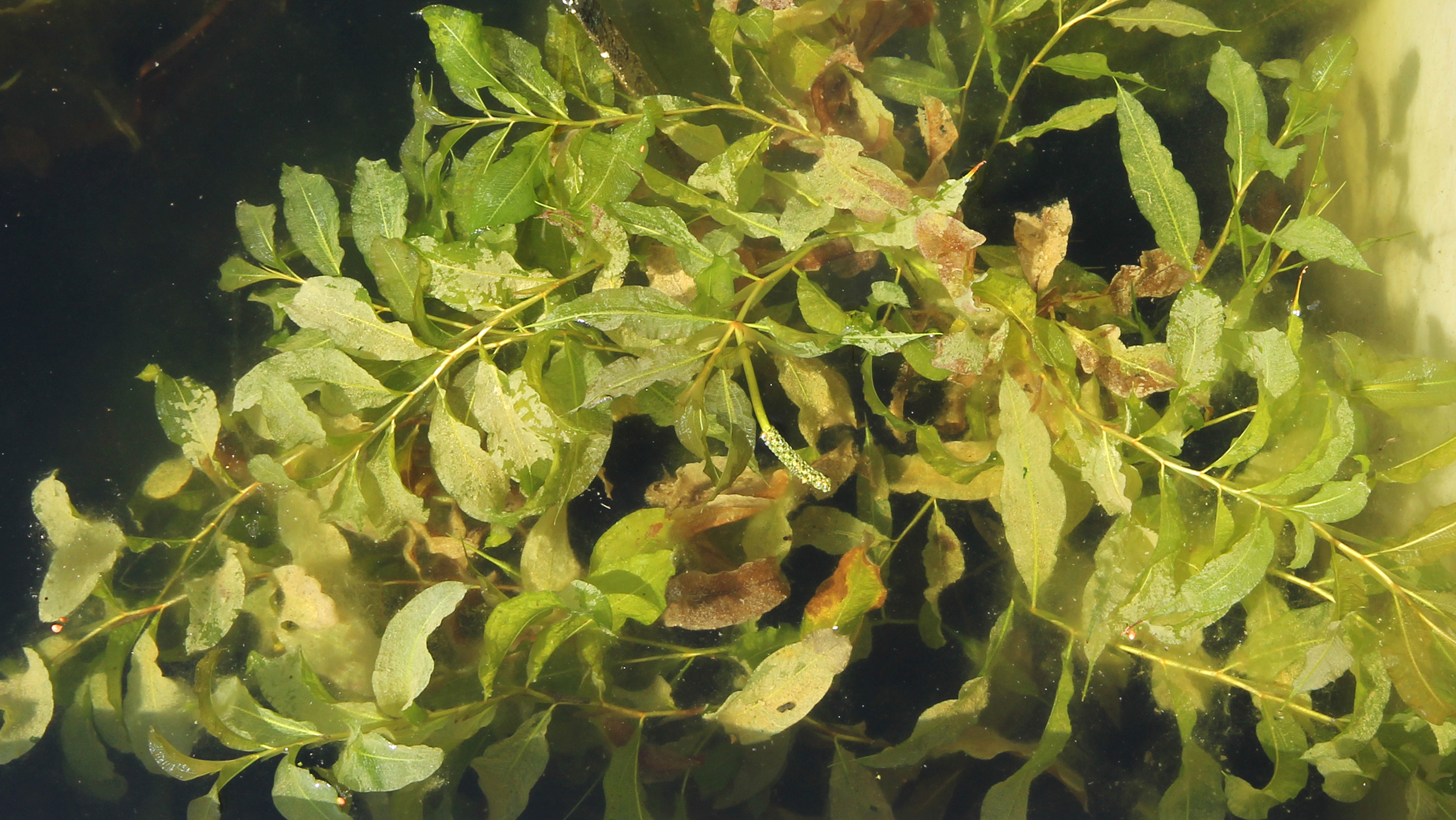 Water plant Potamogeton lucens, (Potamogeton lucens), the Botanical Gardens of Charles University, Prague, Czech Republic